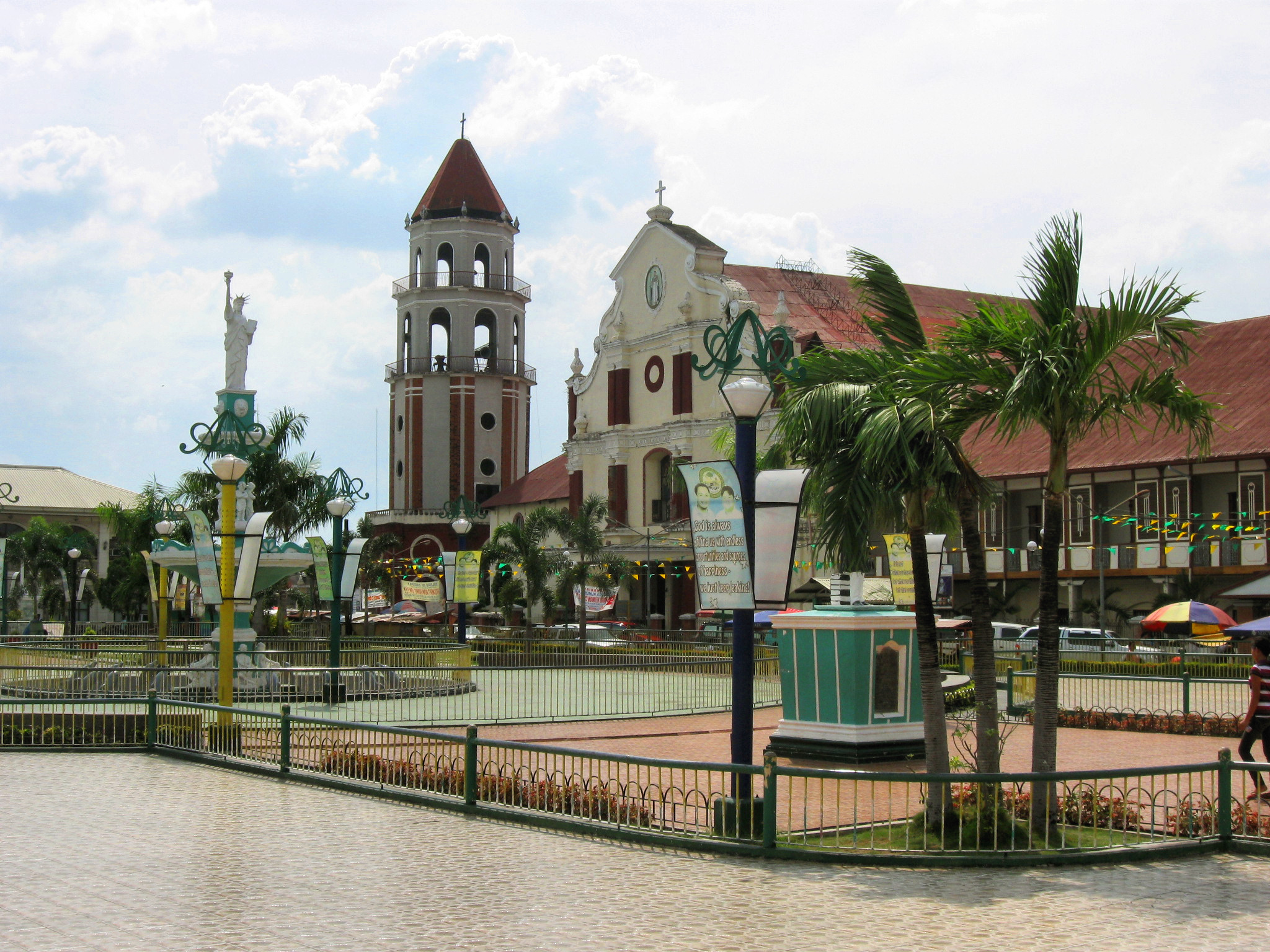 Poblacion of San Carlos, Pangasinan, Philippines